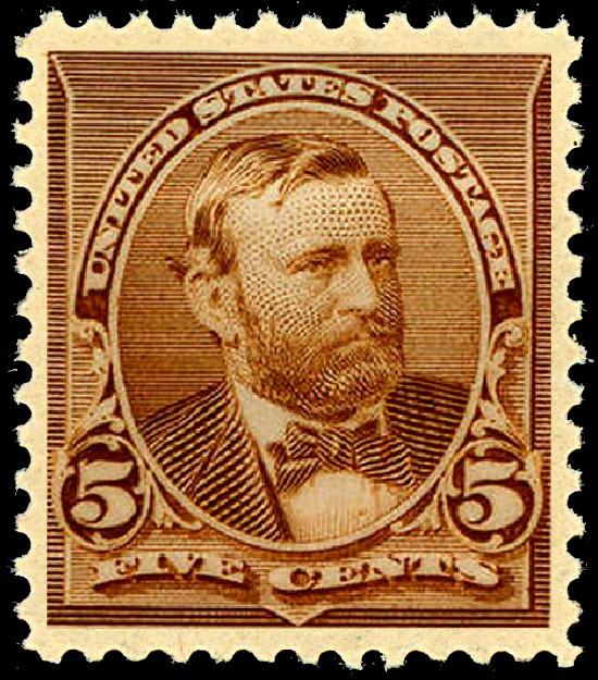 The First US Postage stamp to honor Ulysses S. Grant, 1890 Issue, 5c, brown